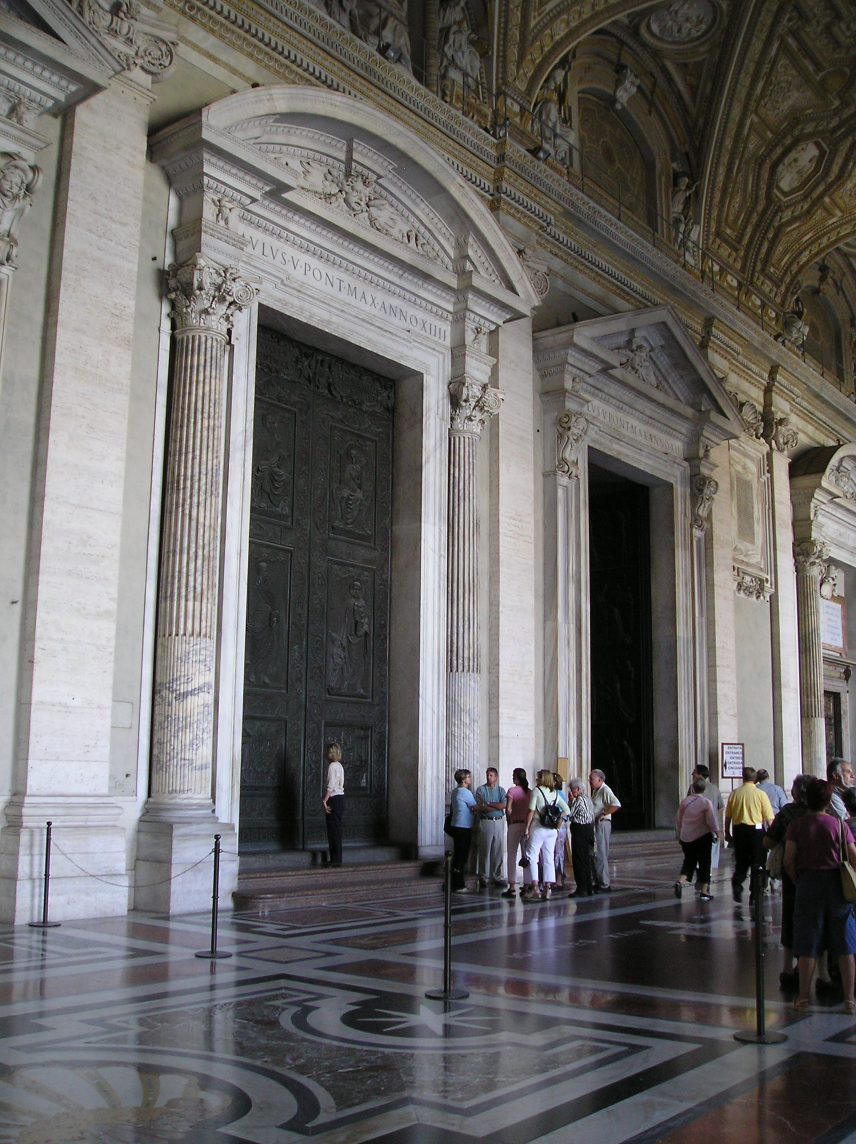 San Pietro in Vaticano - Filarete Doors